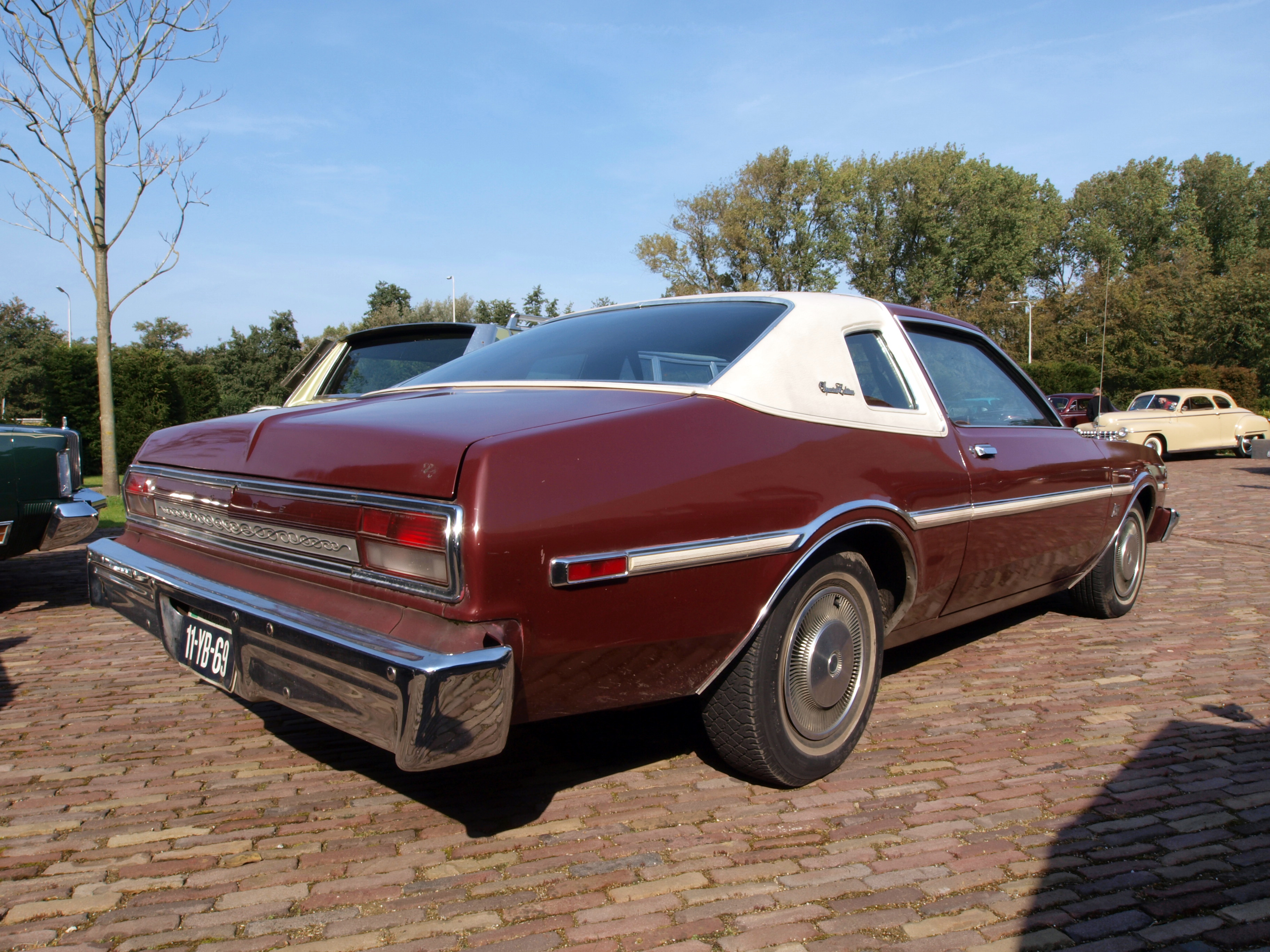 Photographed at the premmesis of the Louwman museum, The Hague, The Netherlands. OLYMPUS DIGITAL CAMERA